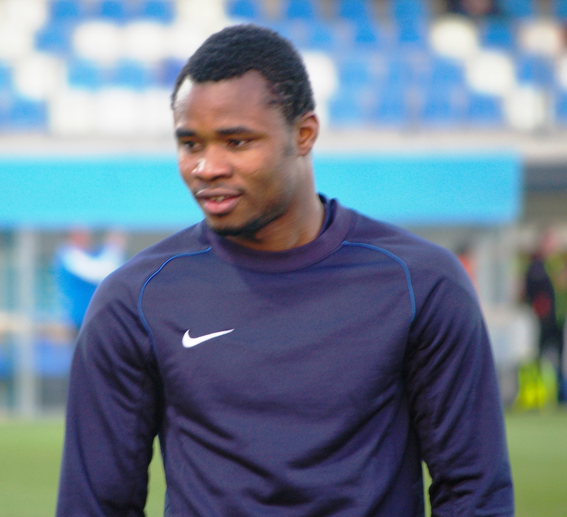 league match Austria 2nd league